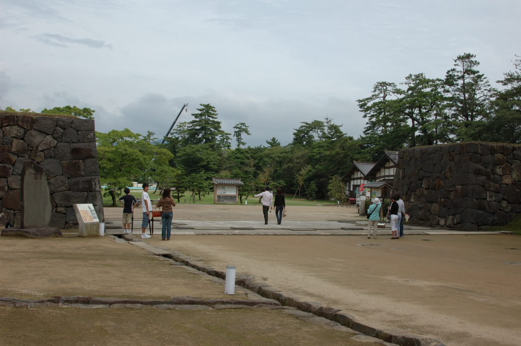 remains of Ote-mon gate in Matsue castle